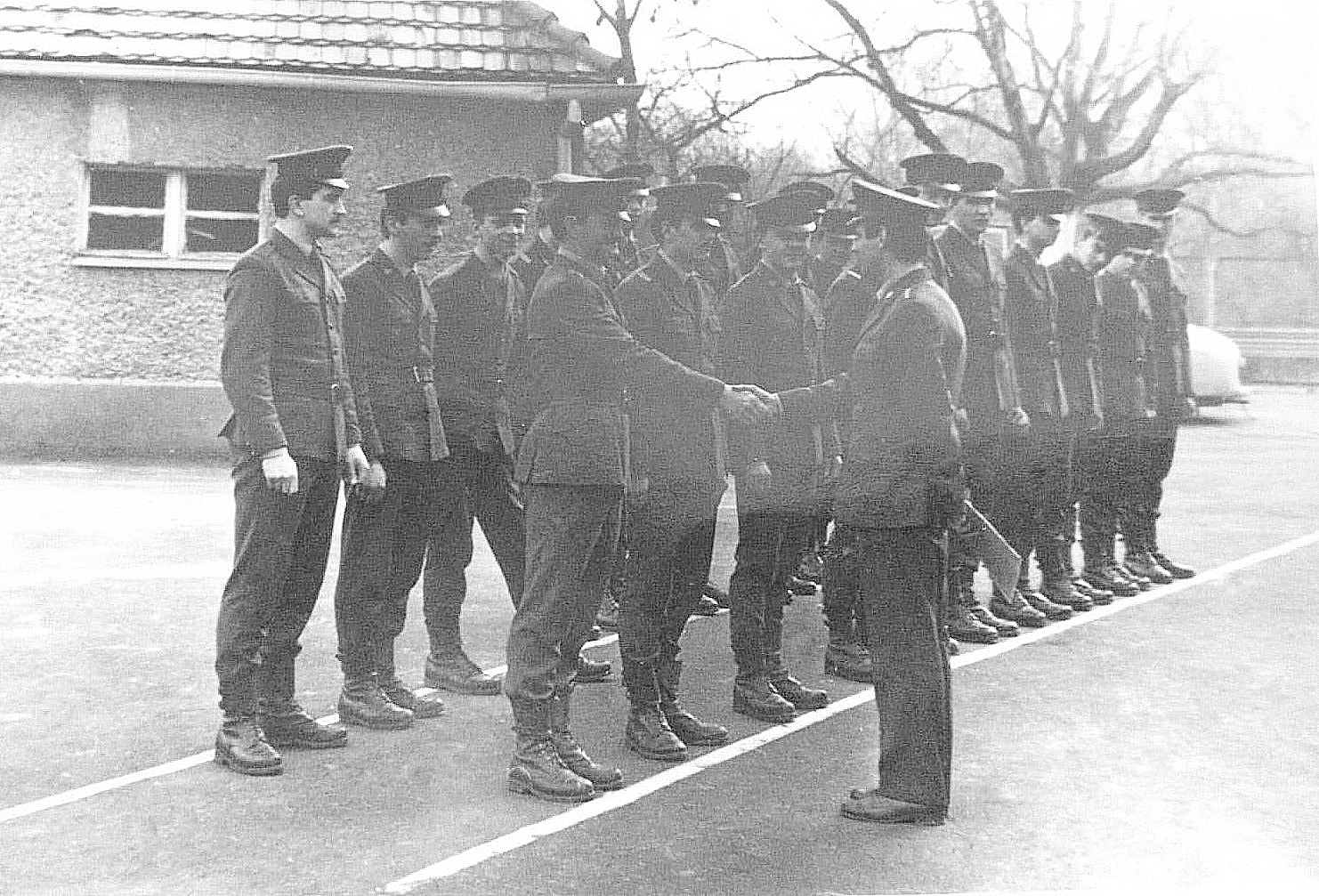 Border Protection Forces in Równe.